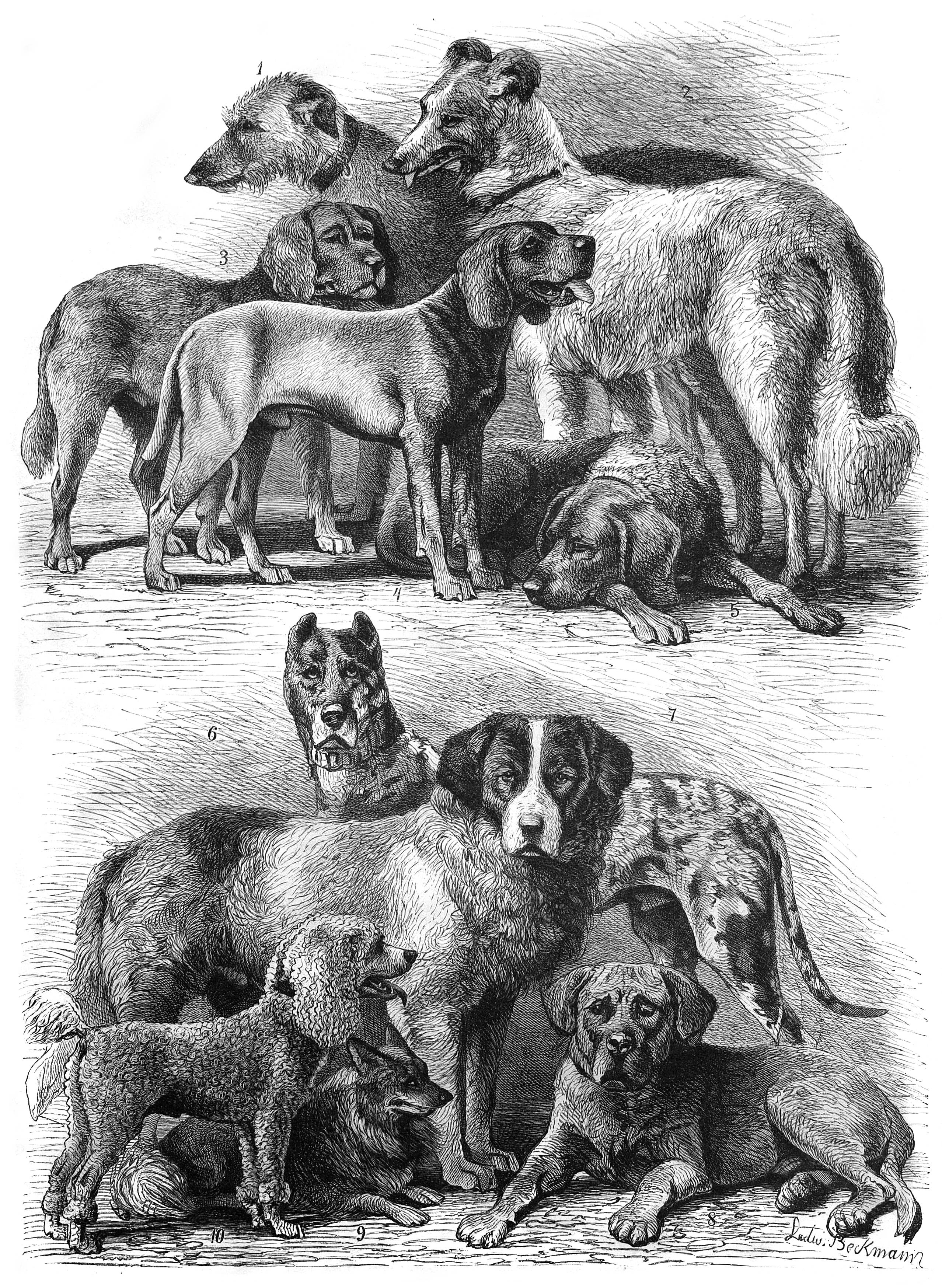 caption: "Prämiirte Hunde auf der Hunde-Ausstellung zu Cleve. Originalzeichnung von L. Beckmann. N"